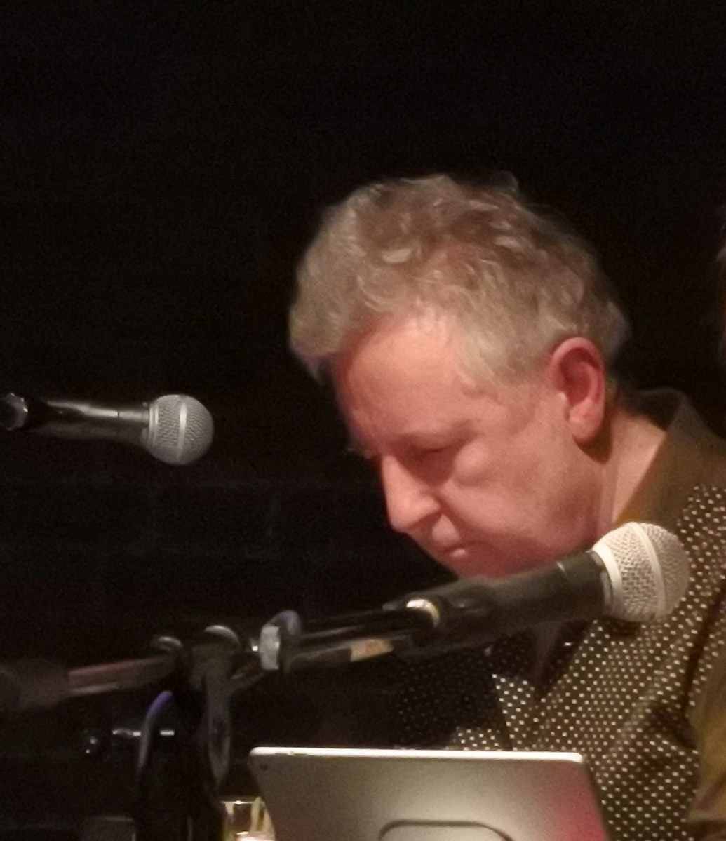 Anthony Moore with Slapp Happy at Mt. Rainer Hall, Shibuya, Tokyo, 24 February 2017